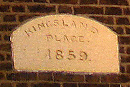 'Kingsland Place'. Plaque on house, Kingsland Road, Hackney, London. 15 October 2005. Photographer: Fin Fahey